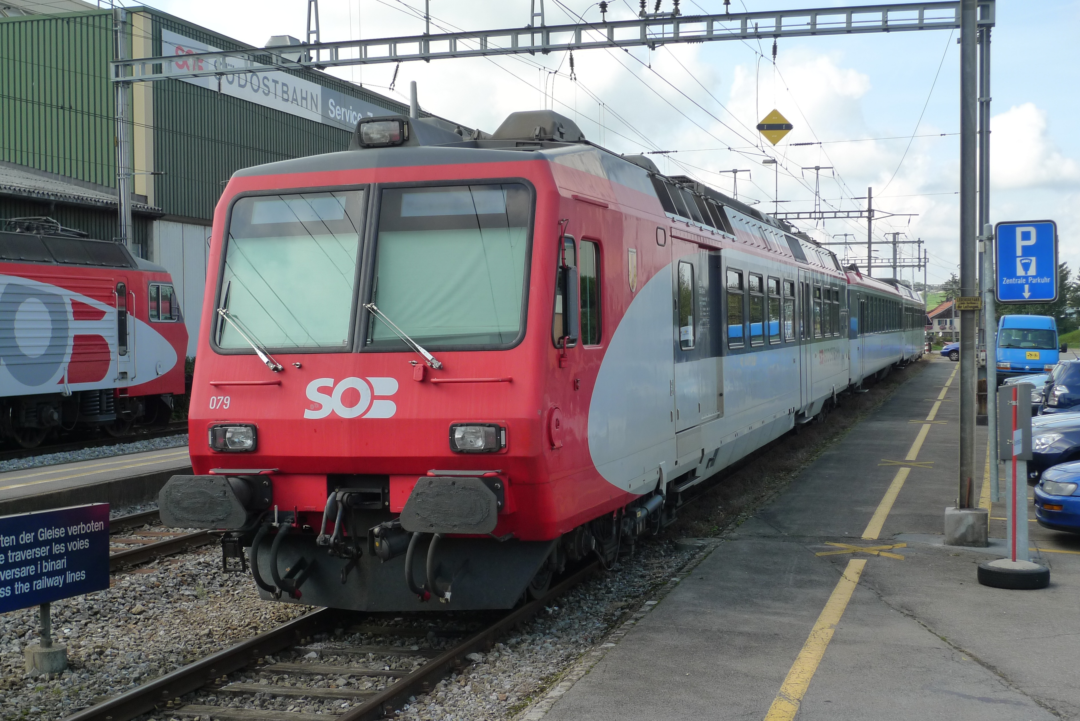 A Neue Pendelzug owned by SOB, parked at Samstagern.